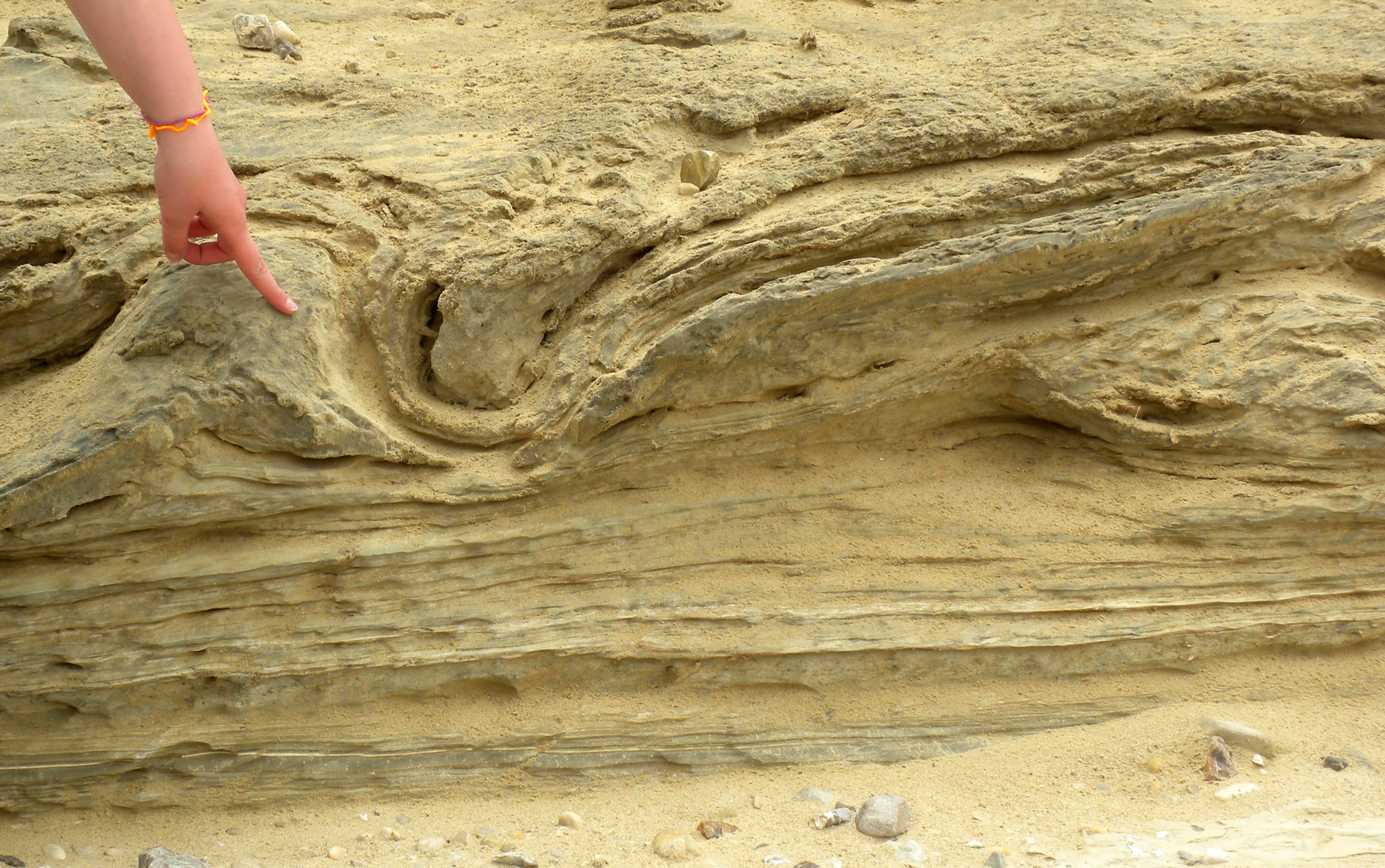 Soft sediment deformation in exposed Dead Sea sediment, Israel. This may be a seismite.